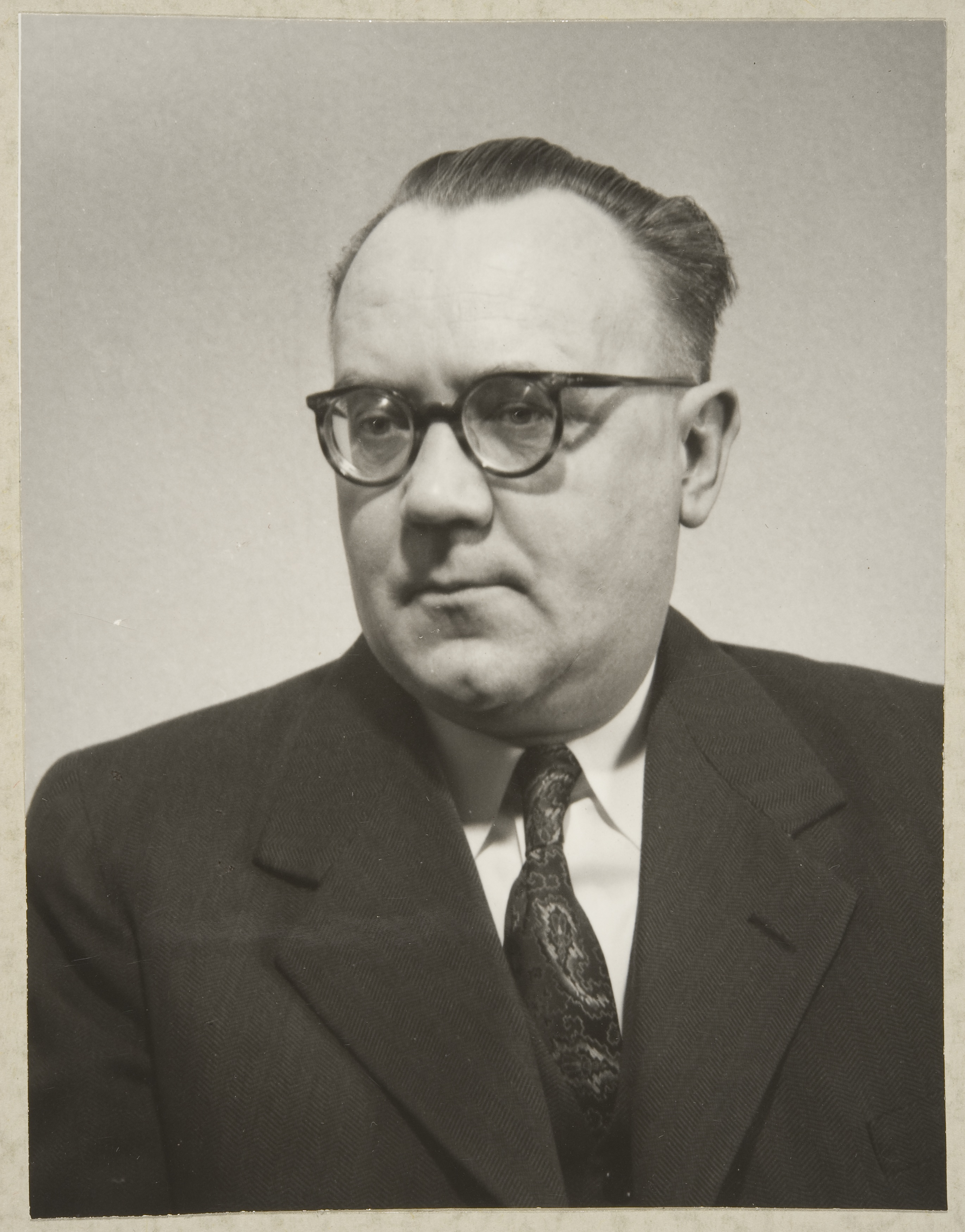 Photograph of the Finnish politician Aku Sumu (1907–1988).